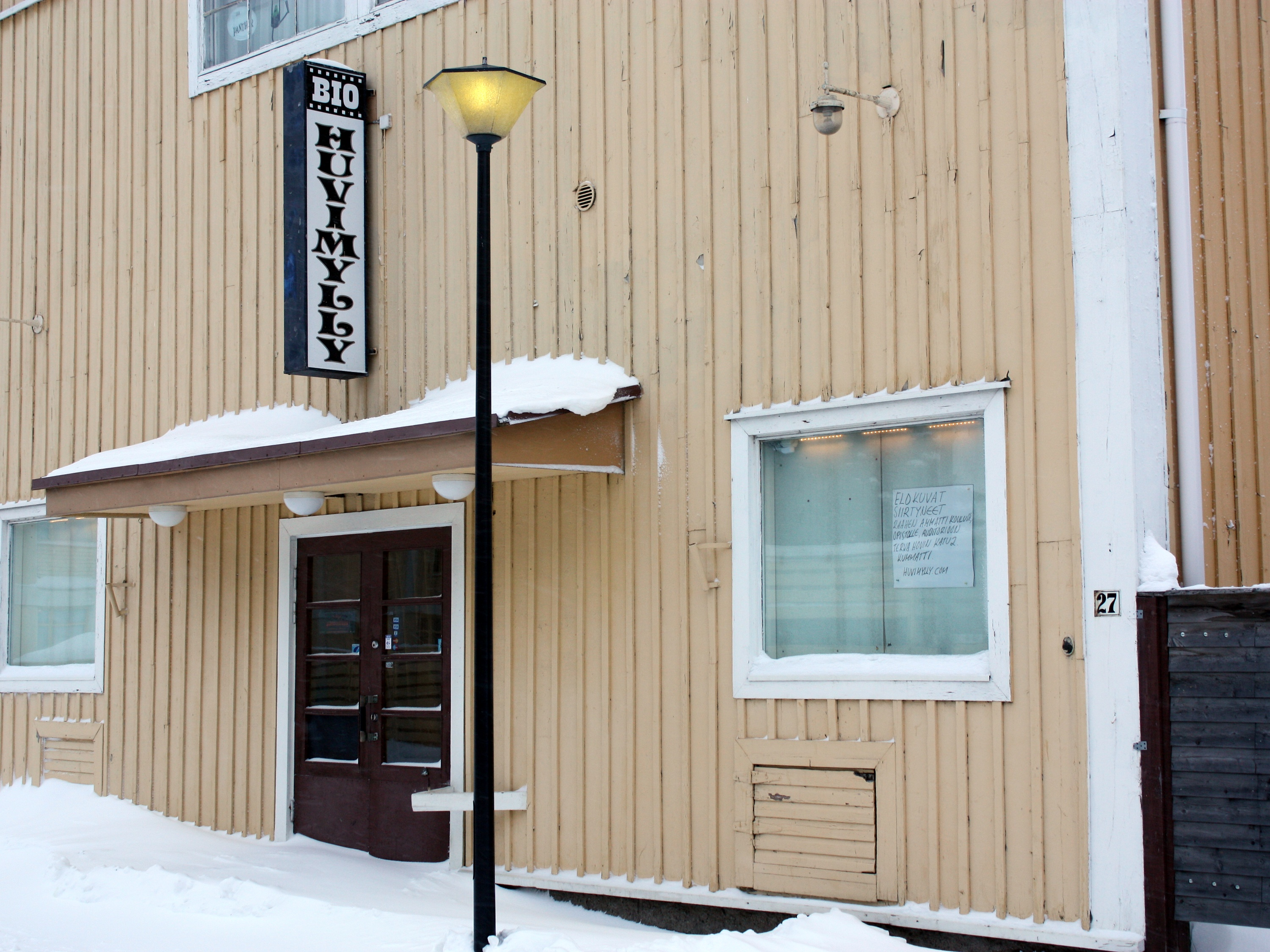 The former building of the Bio Huvimylly cinema in Raahe.